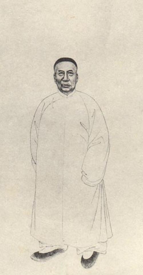 YI Shunding, scholar of the late Qing Dynasty.